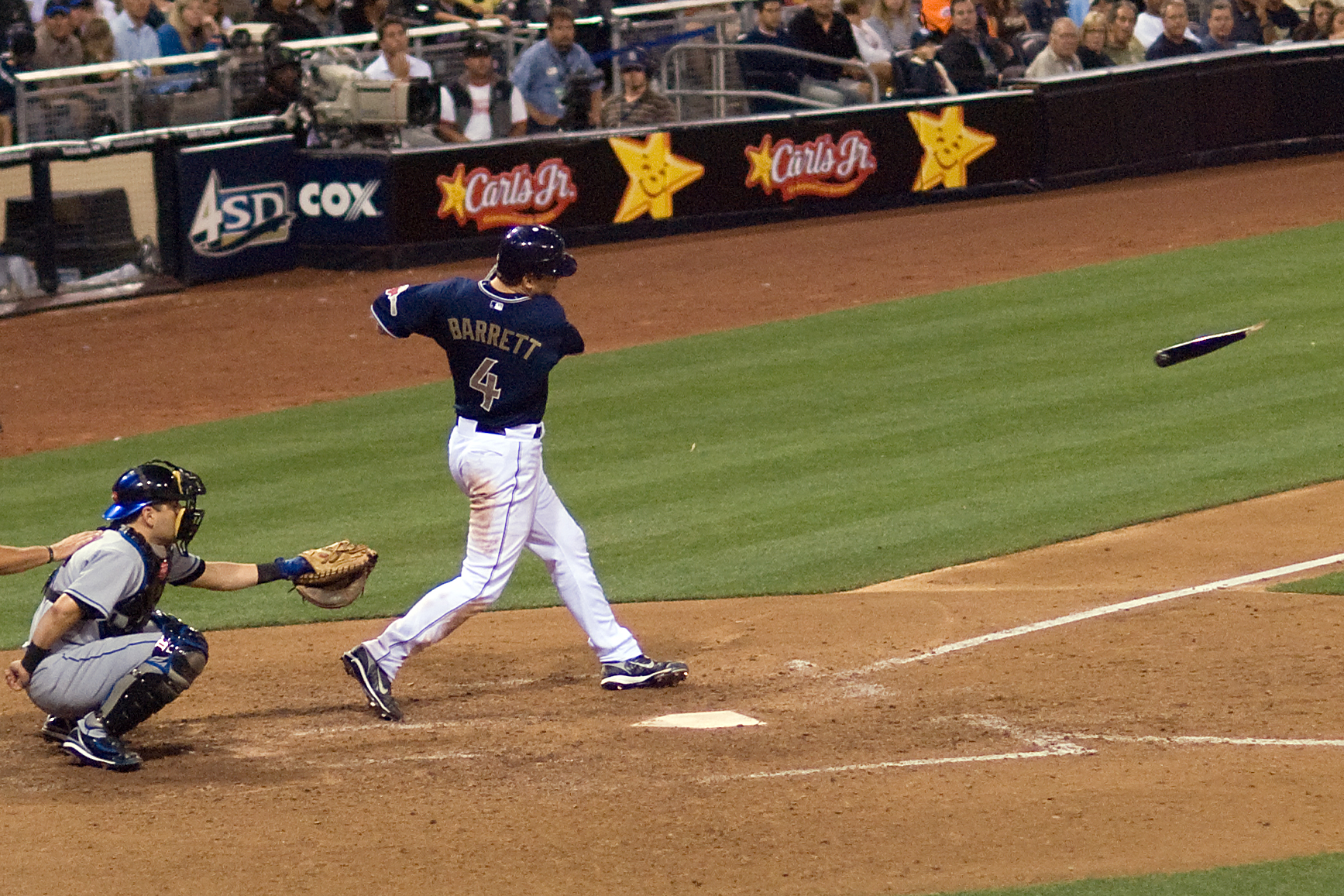 Michael Barrett breaks his bat while swing at a pitch. The image was taken at Petco Park on July 16, 2007, against the New York Mets. Box Score Image was taken by dirk Hansen, and licensed under CC-SA.